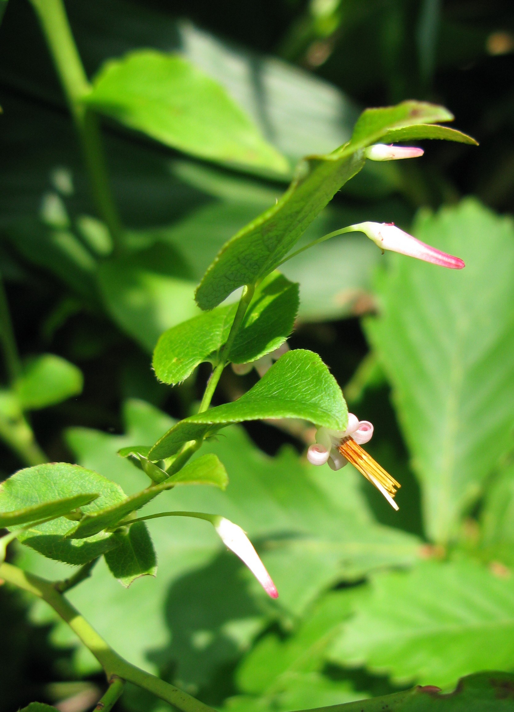 Leucothoe japonicum ,Mt. Bandaisan, Fukushima pref., Japan